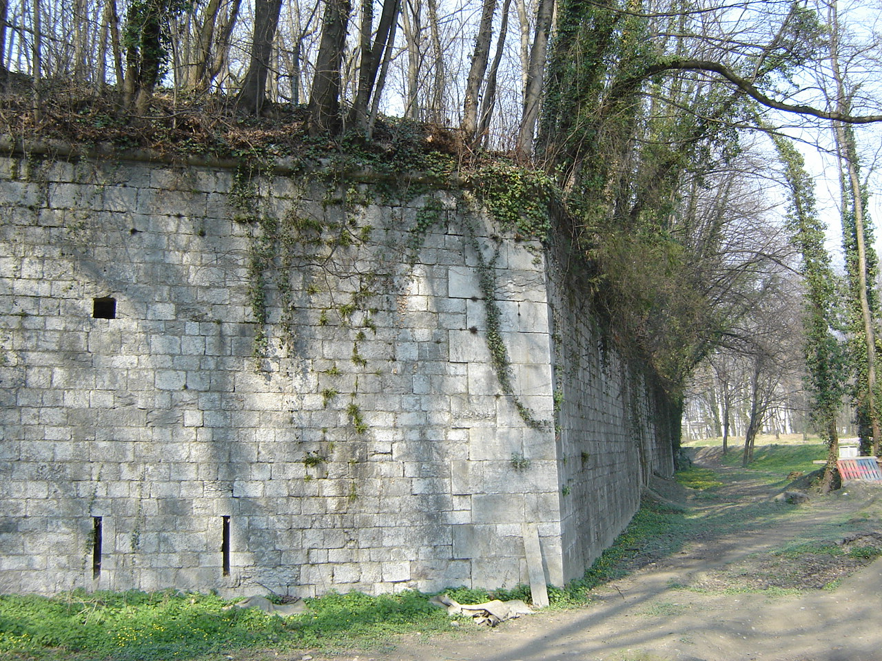 Defensive wall near Le Forum building, Grenoble